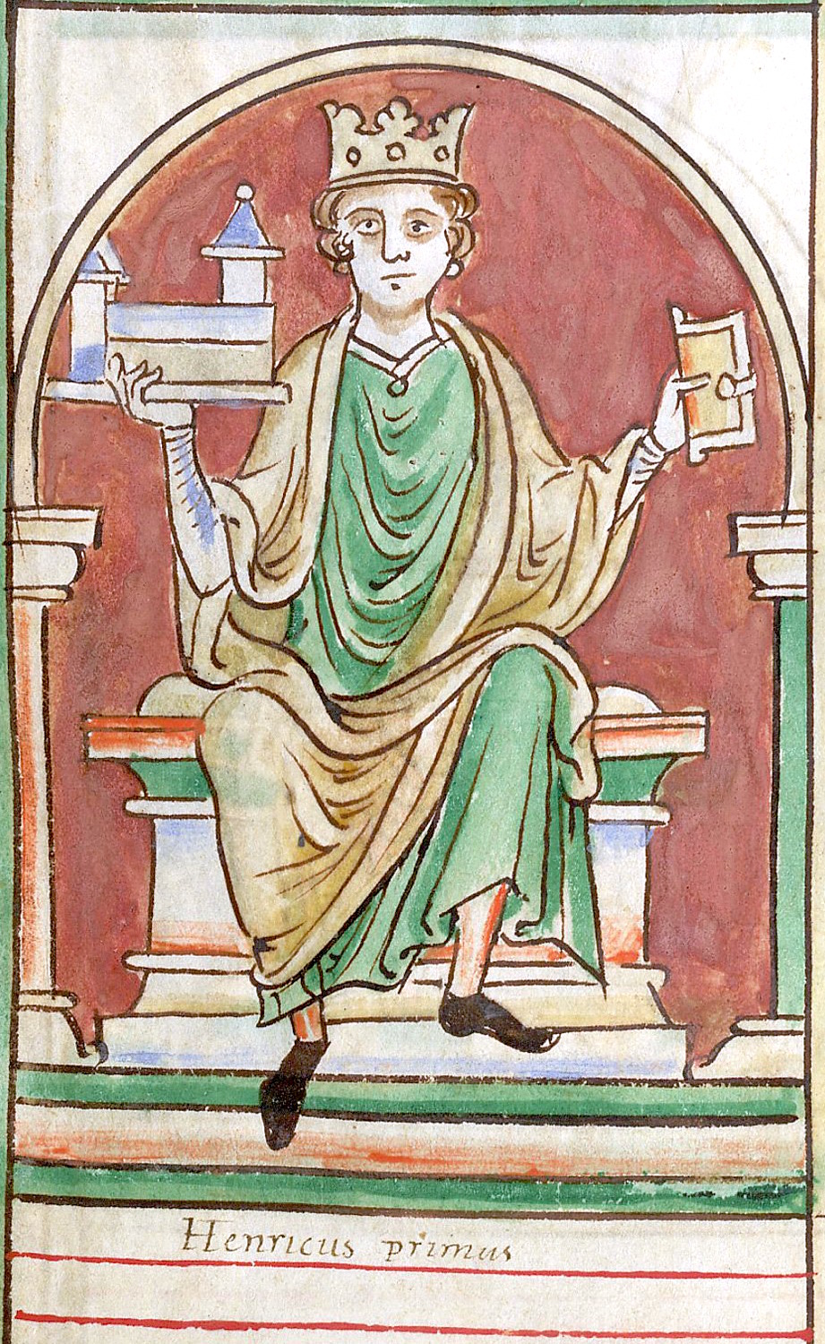 Miniature from illuminated Chronicle of Matthew Paris (1236-1259), from BL MS Cotton Claudius D. vi, f.9, showing Henry I of England enthroned. Held and digitised by the British Library.